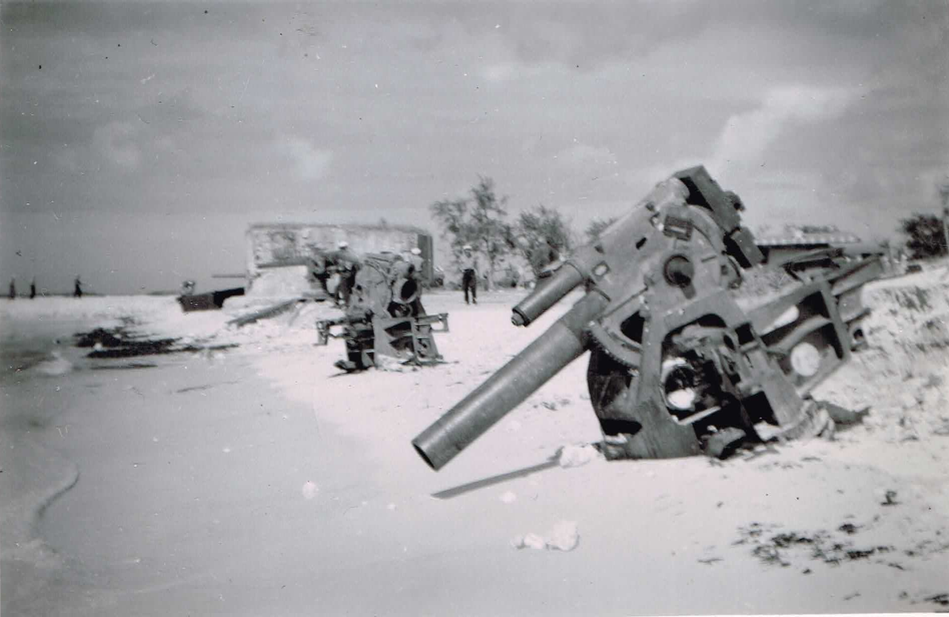 Japanese beach defense; photo taken by my grandfather, George A. Groeschl